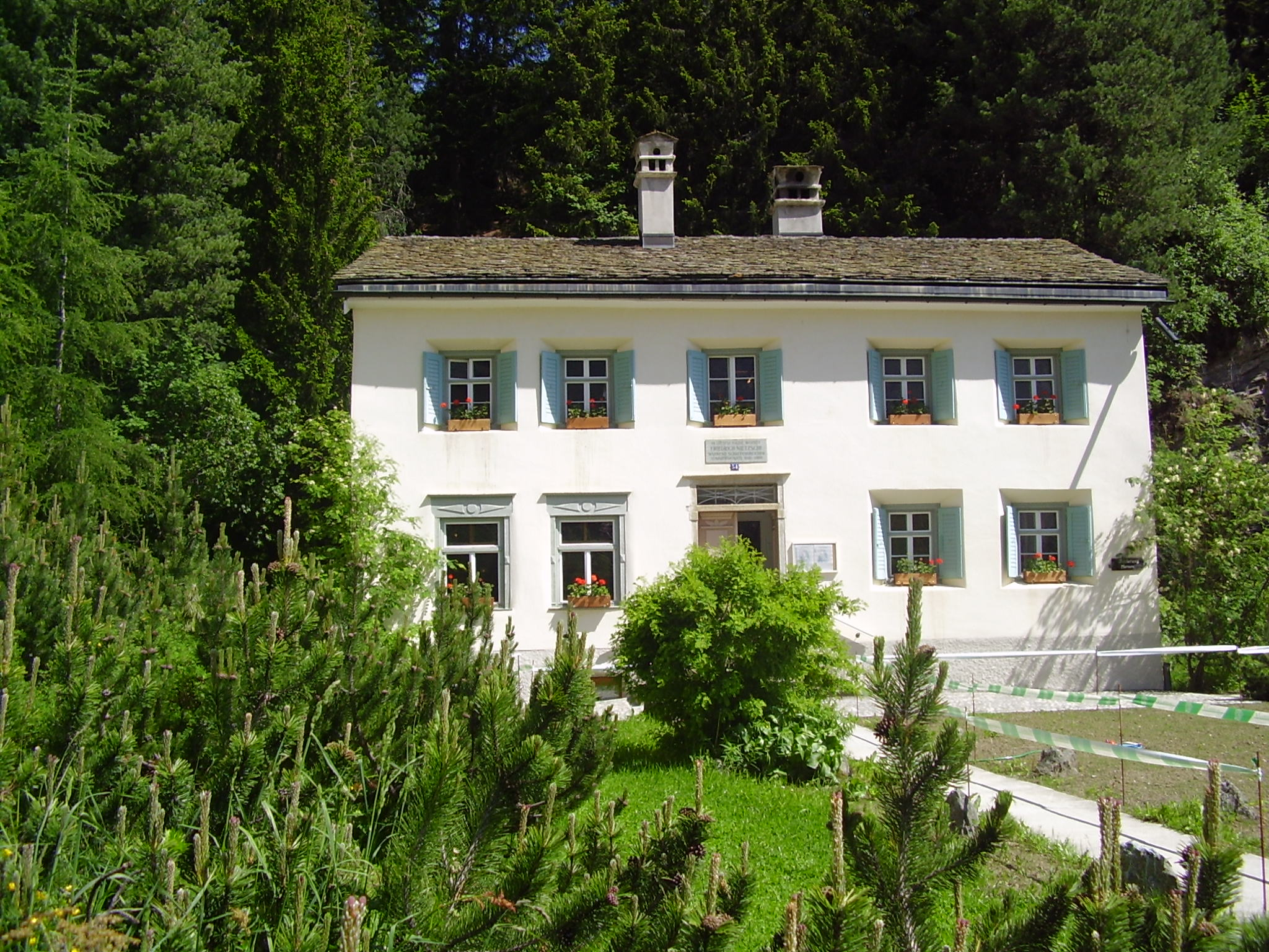 Nietzsche's summer home in Sils, now a museum